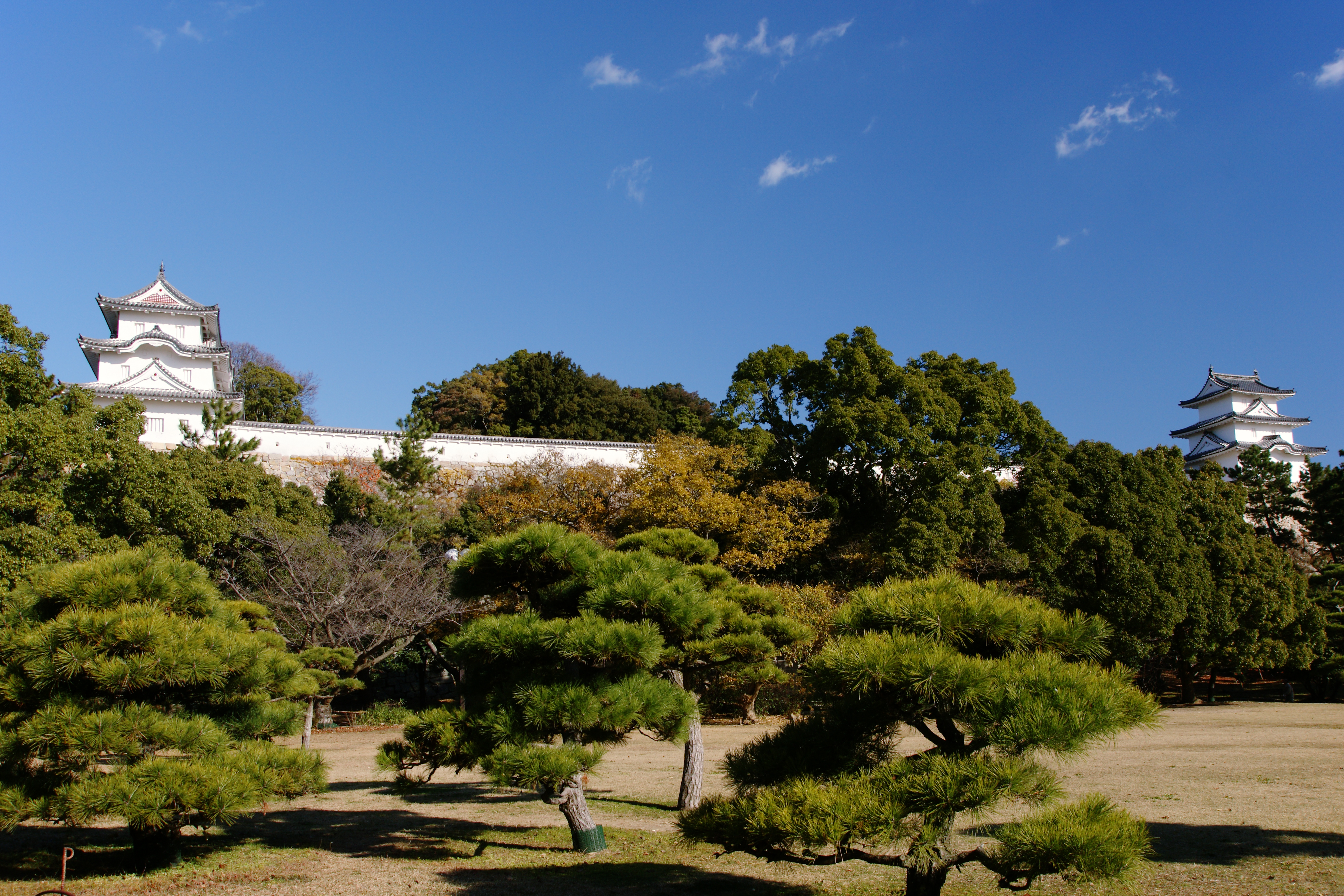 Akashi Castle (Akashi Park), Akashi, Hyogo prefecture, Japan